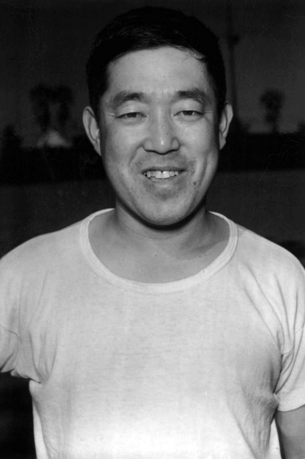 Photo of Chicago Cubs' long-time equipment manager, Yosh Kawano.